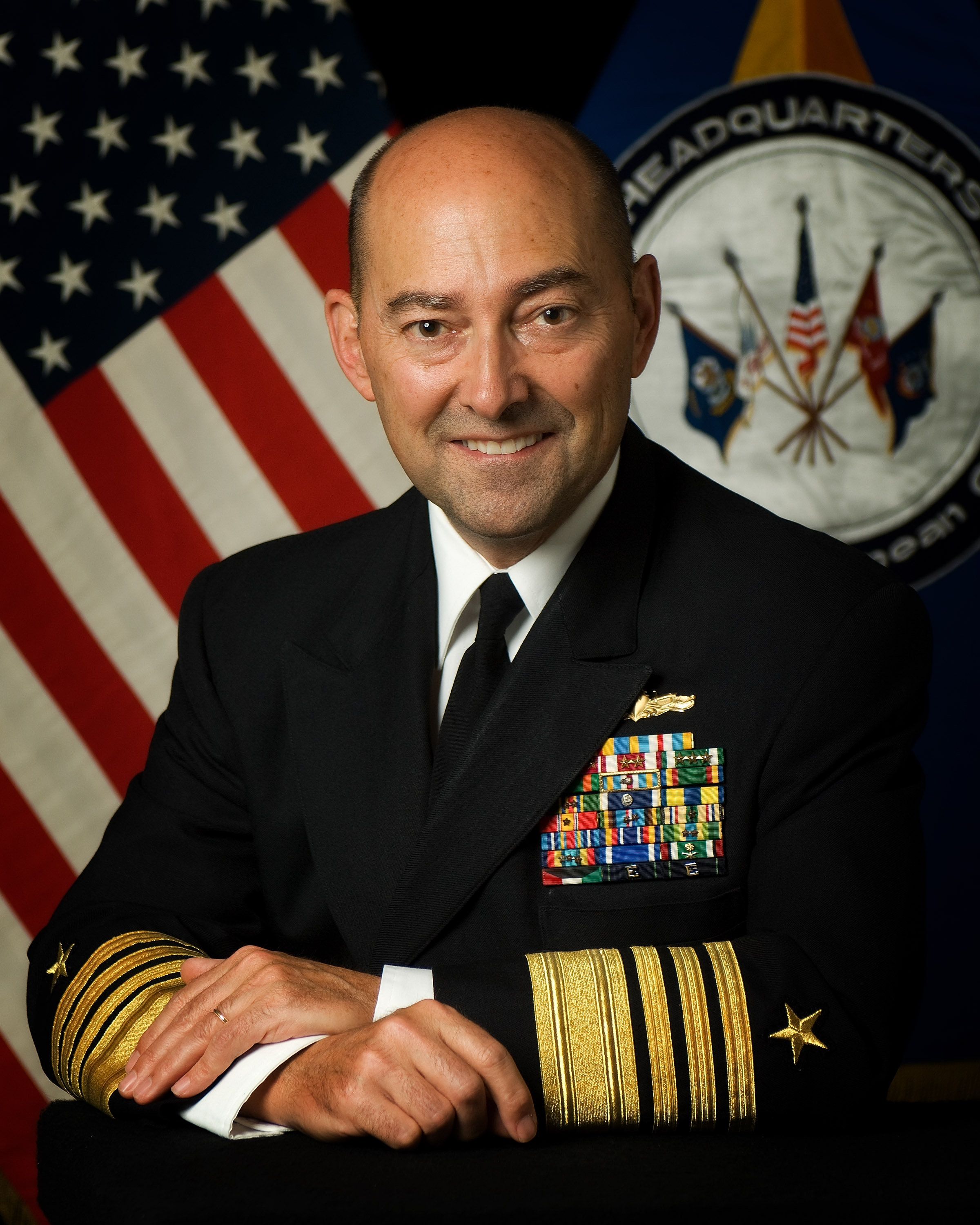 ADM James G. Stavridis, Commander EUCOM and SACEUR